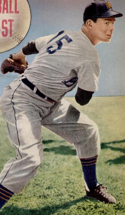 An image of Major League Baseball pitcher Art Houtteman.